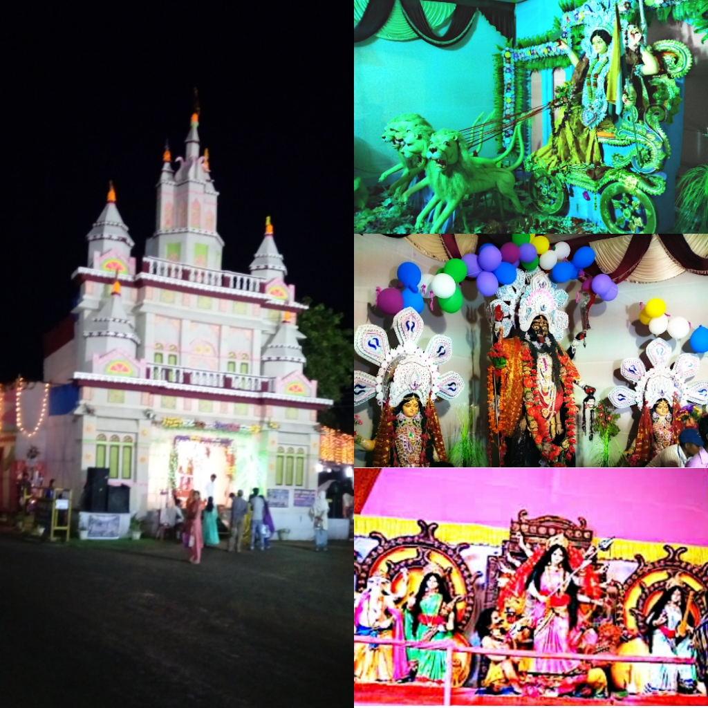 Dussera view of Navratri of Harnaut, Harnaut, Bihar, India